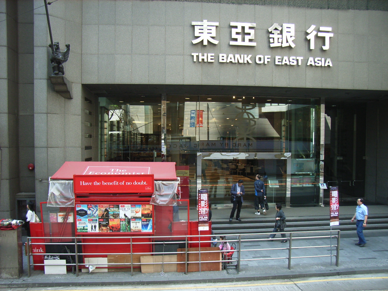 東亞銀行有限公司, The Bank of East Asia Building, 10 Des Voeux Road, Central, Hong Kong. Photo by me.